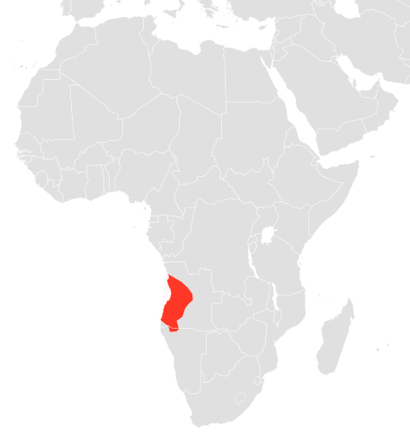 Distribution of Epomophorus angolensis